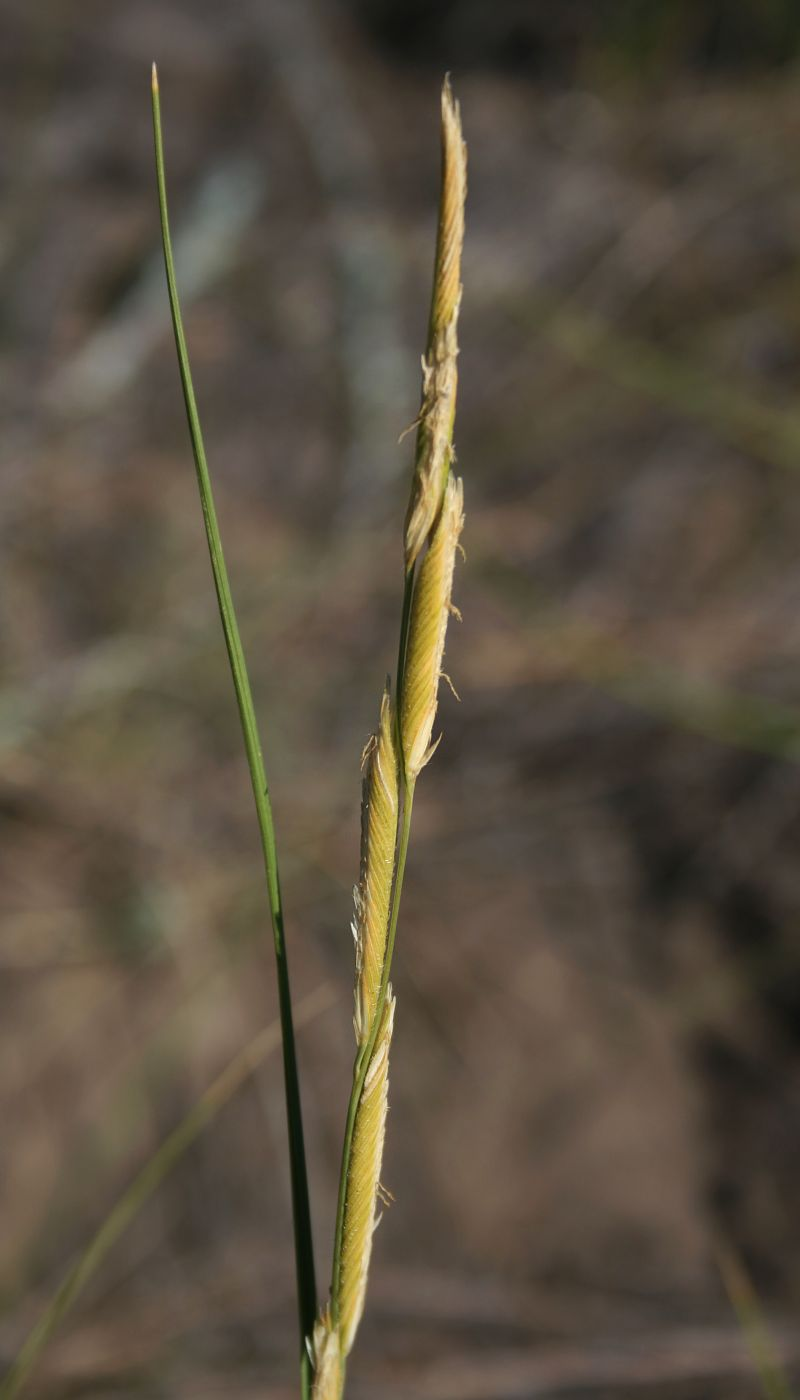 Spartina gracilis, Süßgräser (Poaceae) - Kanada/Canada: British Columbia, Tranquille Ecological Reserve WNW Kamloops, Dewdrop Valley